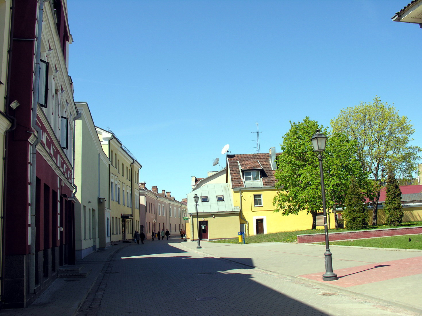 Didžioji street, Kėdainiai city, Lithuania.